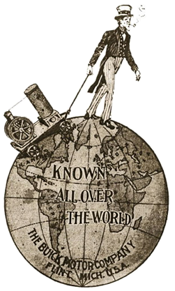 The first logo of "The Buick Motor Company", with a representation of Uncle Sam pulling a machine, and the legend "Known all over the world - Flint, Michigan".